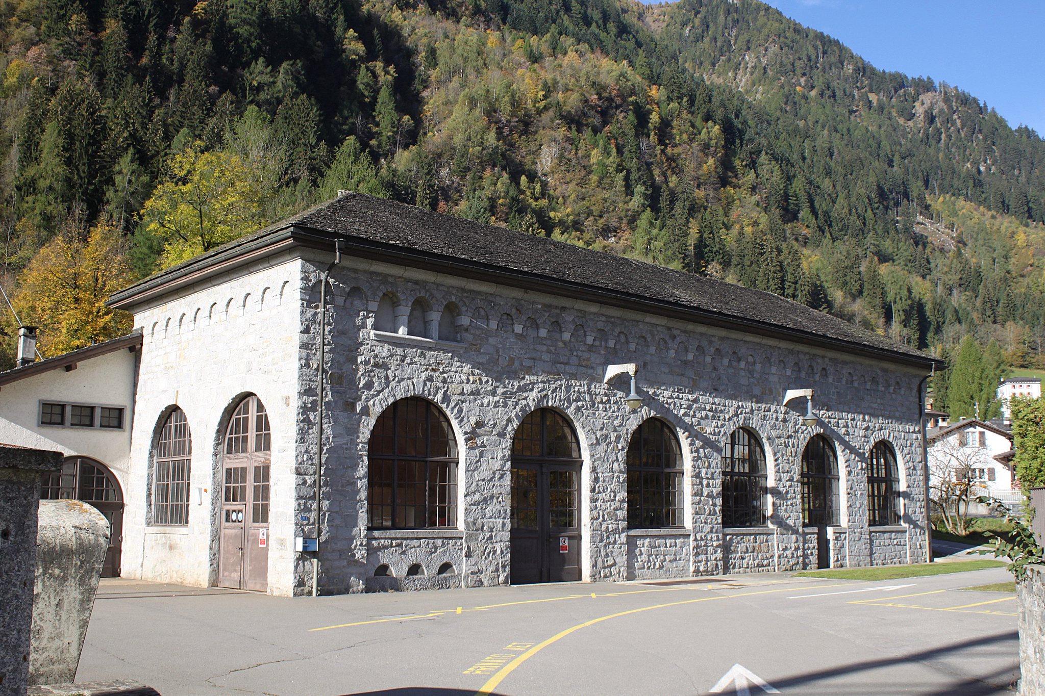 Tremorgio hydroelectric power plant.